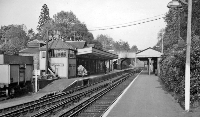 Bracknell Station. View eastward, towards Ascot and London; ex-LSWR Waterloo - Ascot - Reading line -- still thriving.